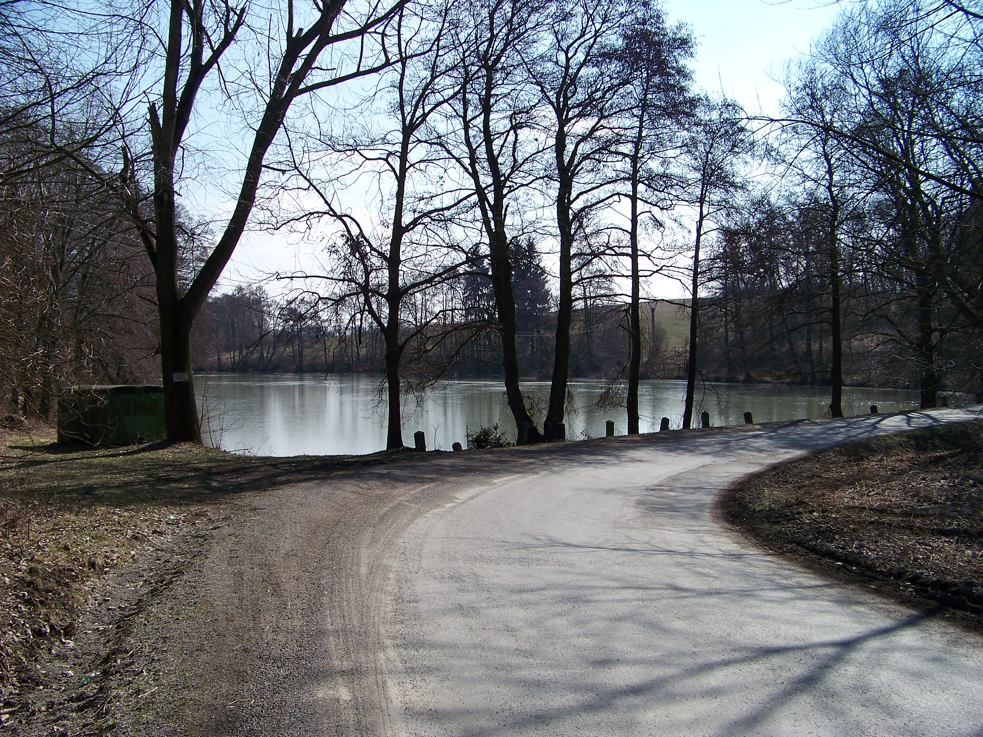 Malešov, Kutná Hora District, Central Bohemian Region, the Czech Republic. Road III/3378 on the dam of Prosík pond.